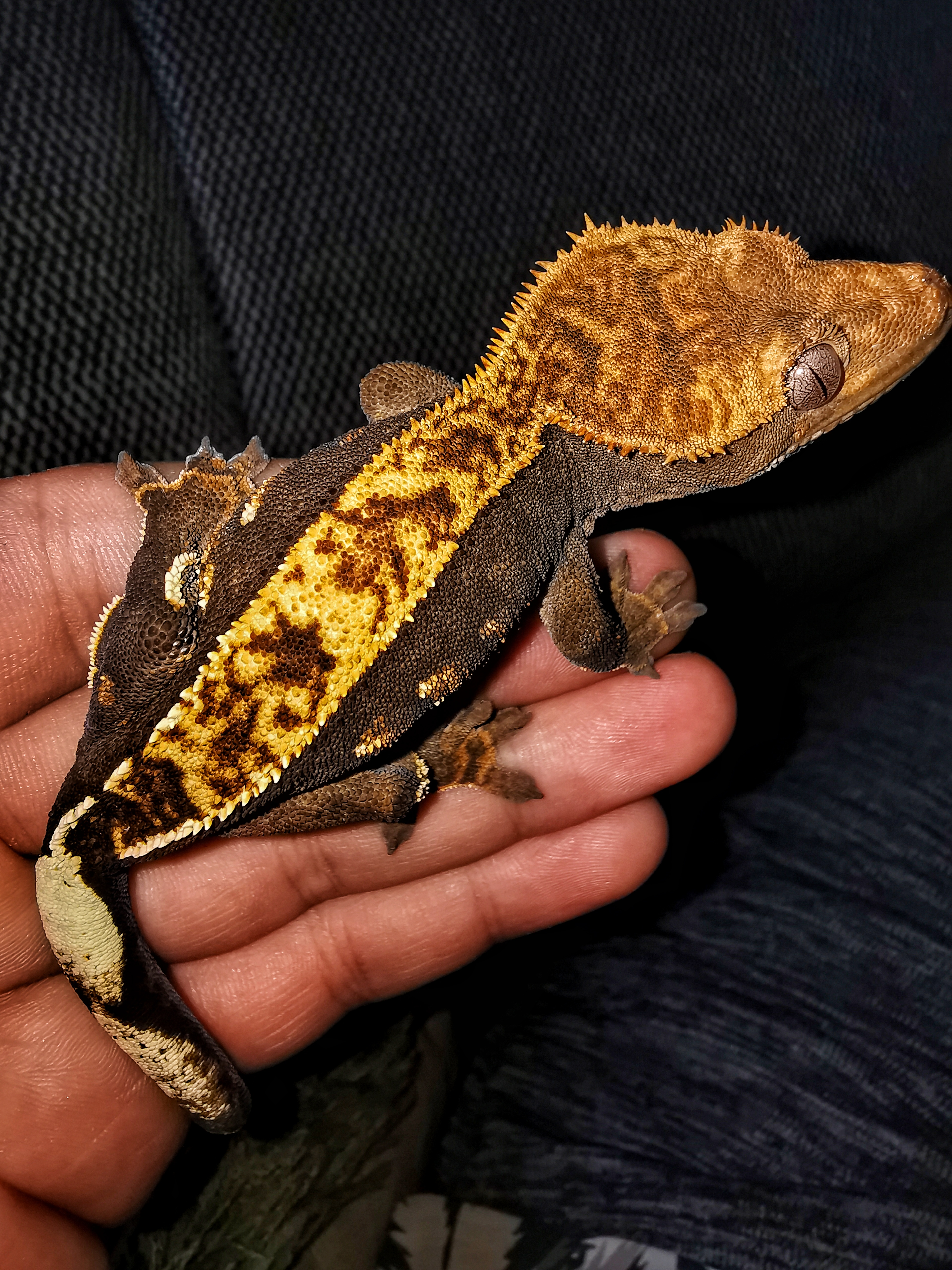 Captive bred young female crested gecko, Harlequin morph